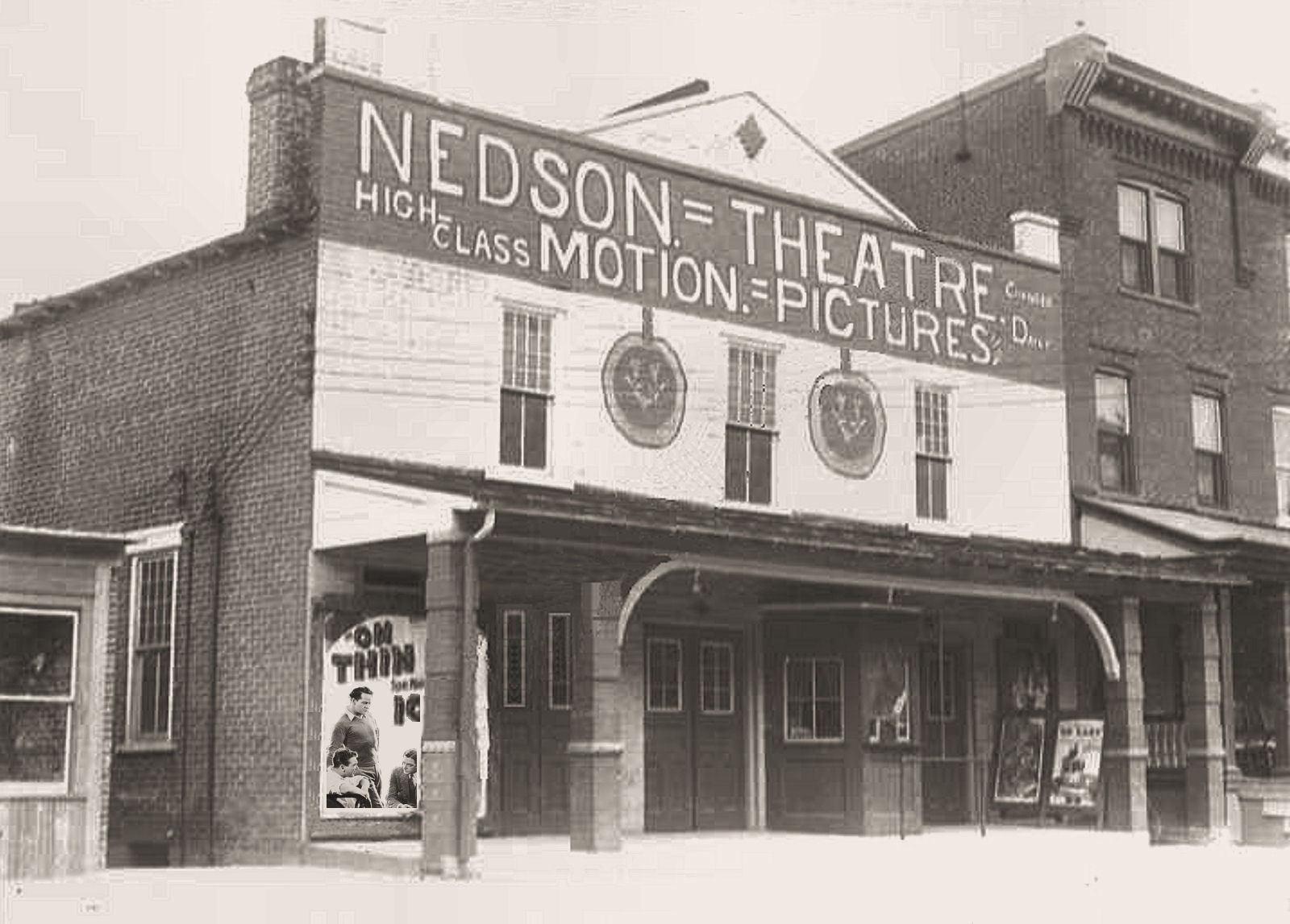 Nedson Theater, 608 North New Street Allentown PA. Opened in August 1914 as the Nedsen Theater, owned and operated by R. E. Bowen and H. E. Kelser. It was initially opened with a seating capacity of 416 seats. In June, 1915, it was taken over by James K. Bowen who owned the Pergola Theater at Ninth and Hamilton Street in Allentown. Bowen expanded the theater to 700 seats and added a second projector. Bowen also added evening showings of films shown during the day at the Pergola. It became the New Allen Theatre in 1926, and the Allen Theatre in 1934. In the photo, the theater appears to be showing On Thin Ice, a 1925 Warner Brothers Film about a crook and his gang plan to con a young woman out of a cache of stolen loot they, and the police, believe she's hiding. The situation changes, however, when he falls in love with her and he sets out to save her from being imprisoned for a crime she did not commit.